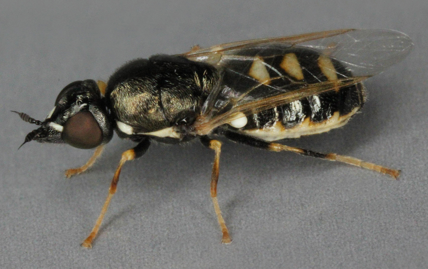 Nemotelus uliginosus, Deeside, North Wales, July 2011